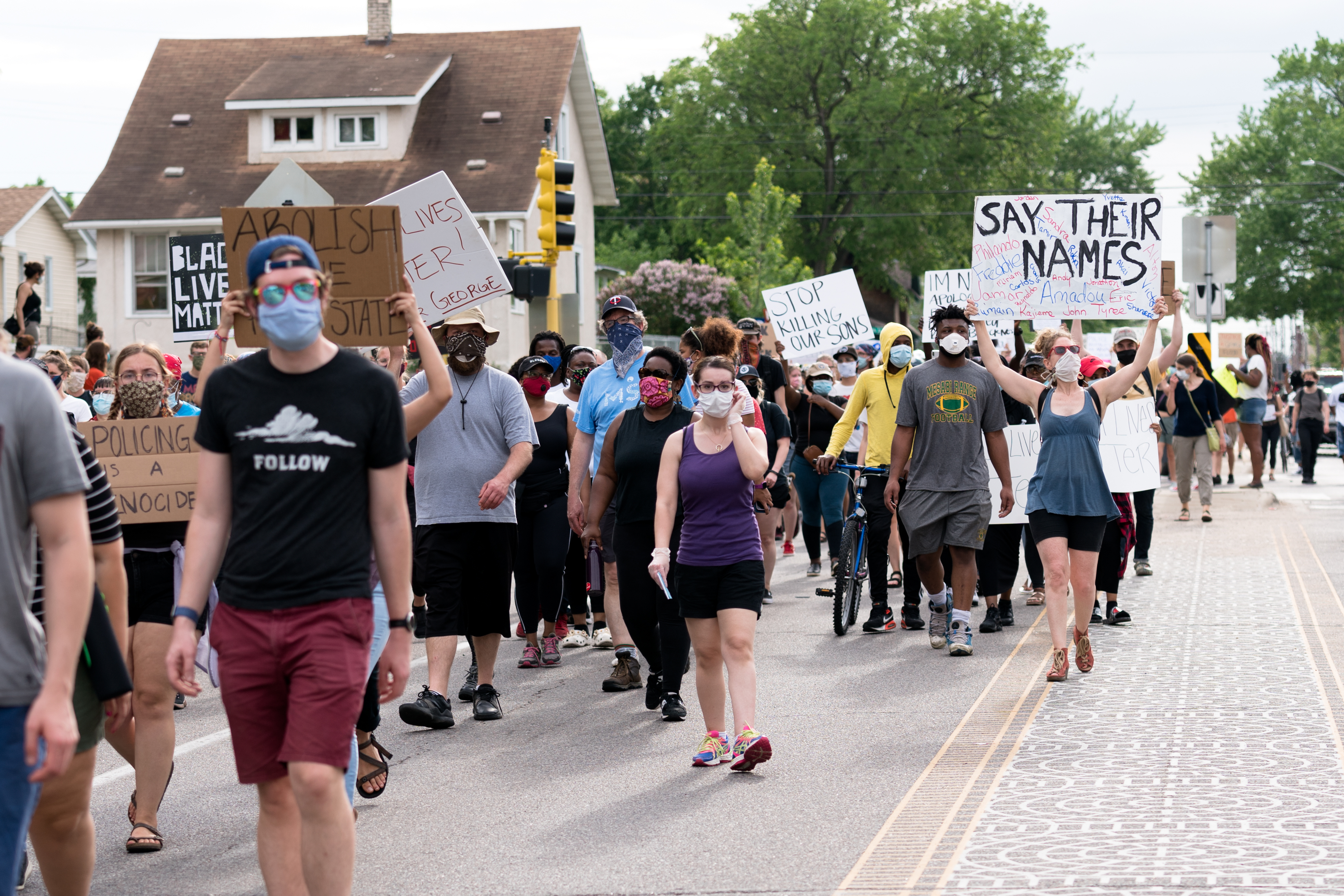 On May 26, 2020, people protested against police violence after the death of George Floyd on the previous day.